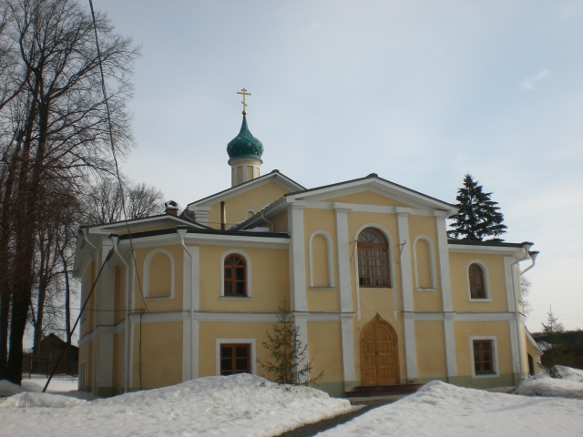 Paraklit-Tarbeev Monastery (Paraklit-Tarbeeva Pustyn) near Troitse-Sergieva Lavra. St. Paraklit Church